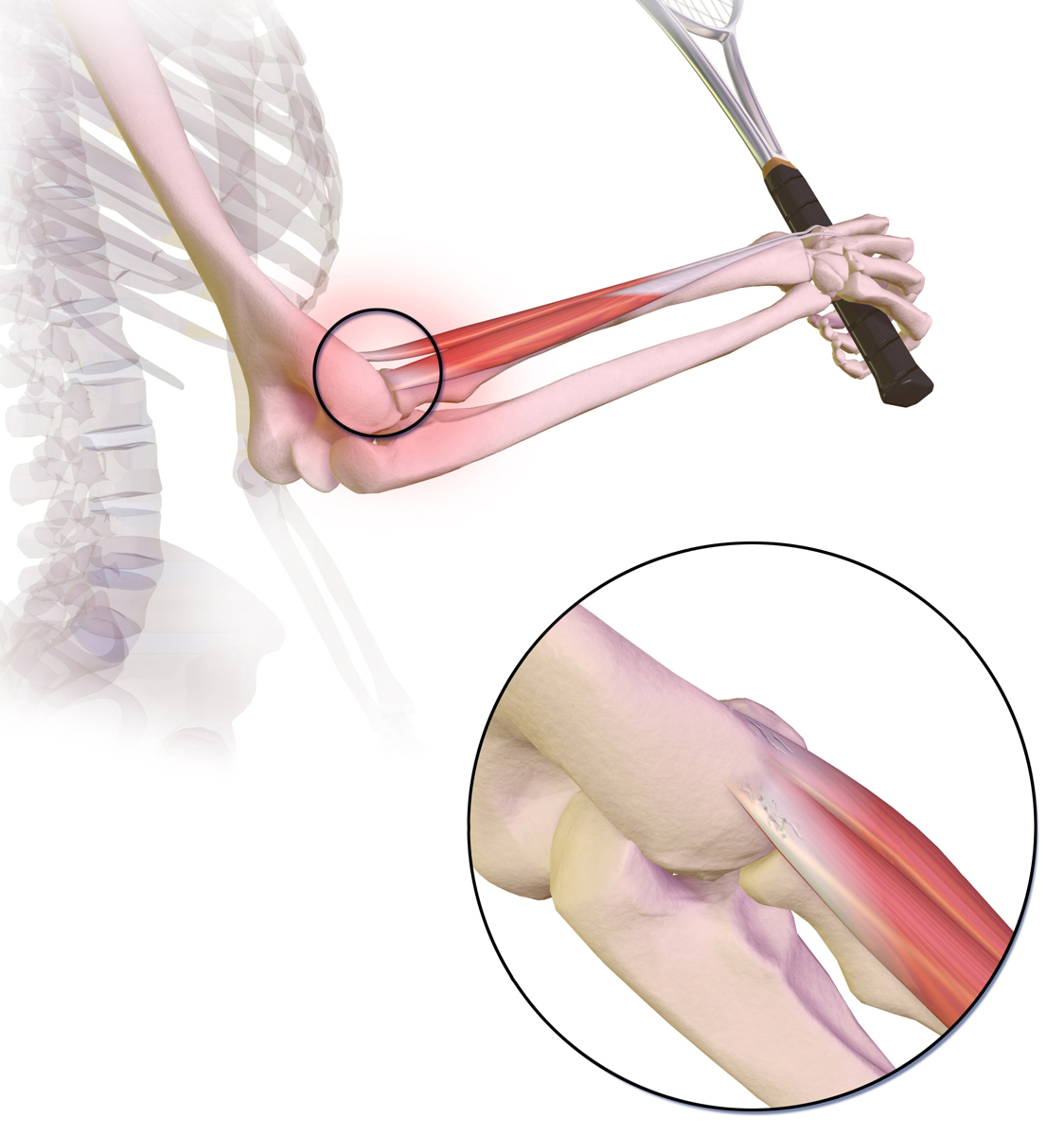 Tennis Elbow. This is an edited version of the source image made for use in the "Anatomist" iOS and Android app and shared here under the terms of the source image's Share Alike Creative Commons license.